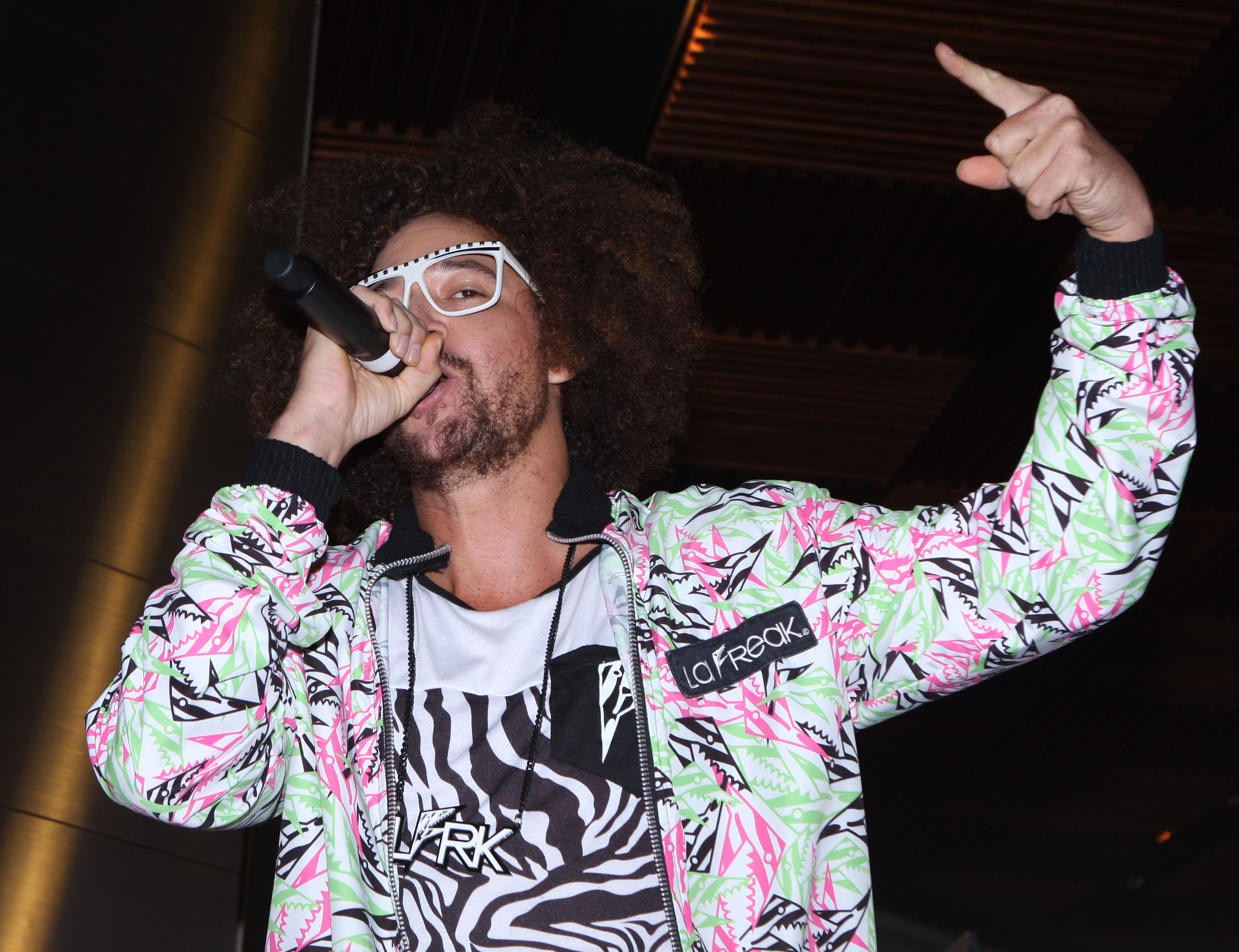 Redfoo Launches clothing line, Sydney